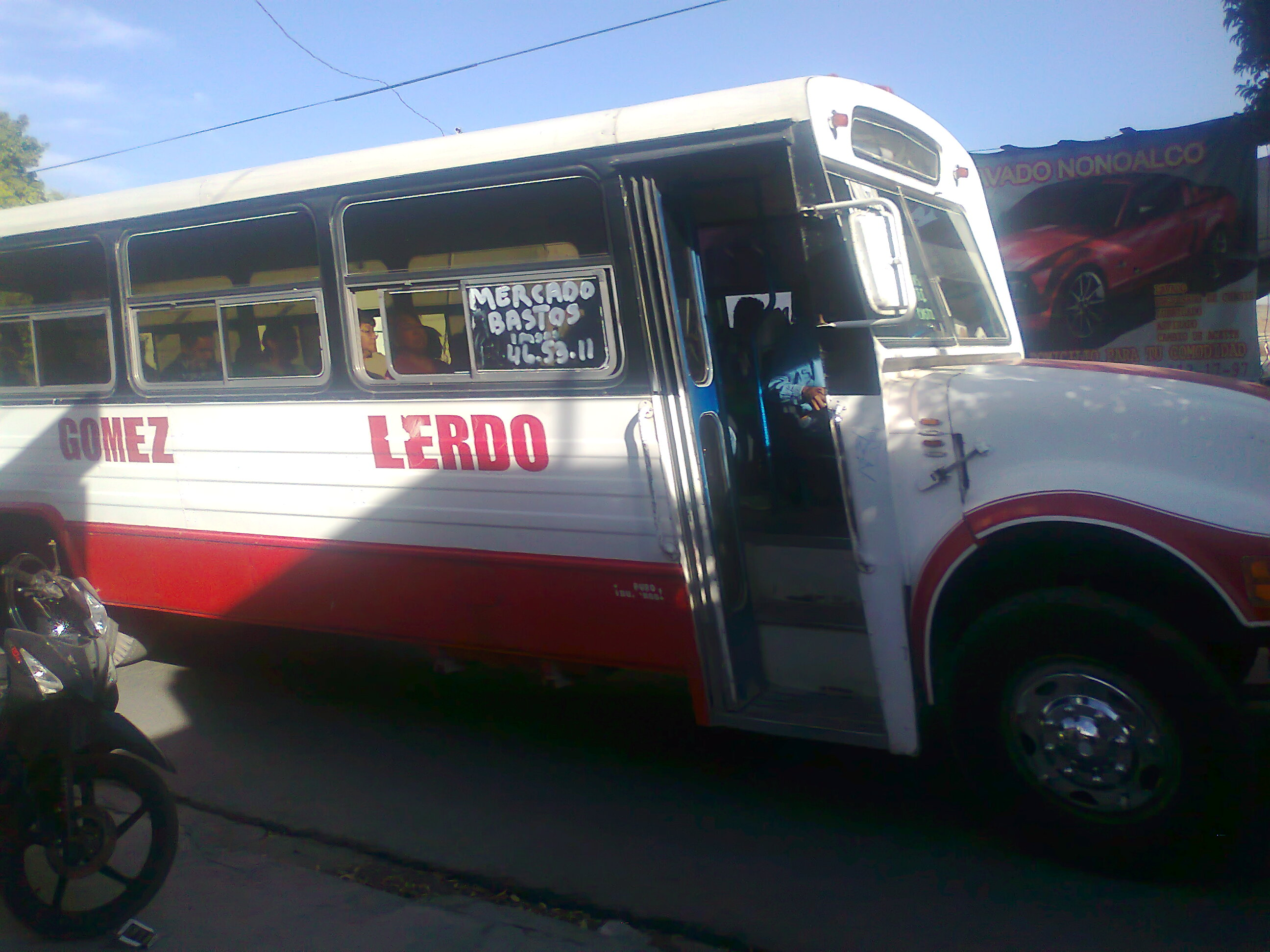 Autobús de Transportes del Nazas